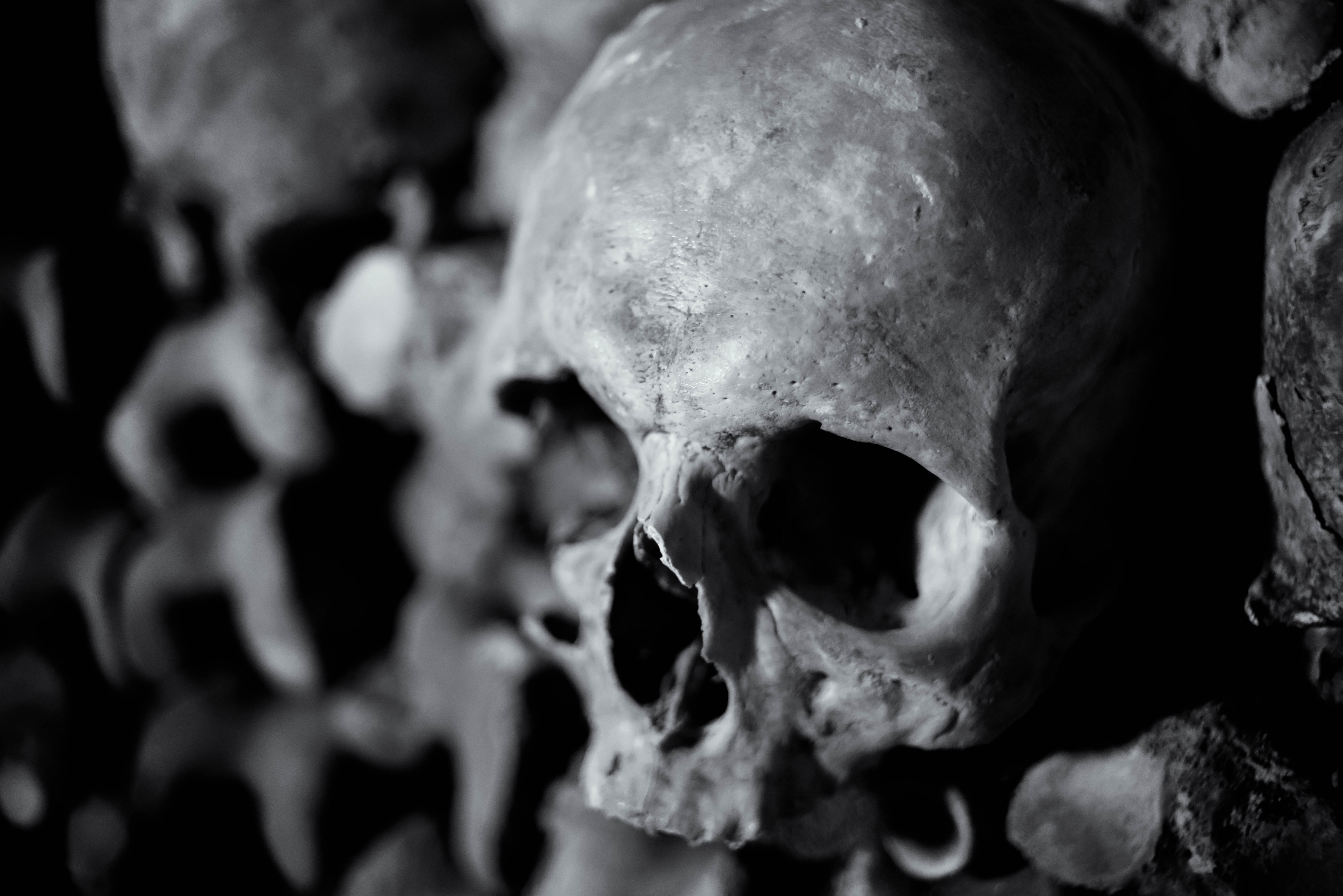 One of the many bodies relocated to the catacombs over the years.